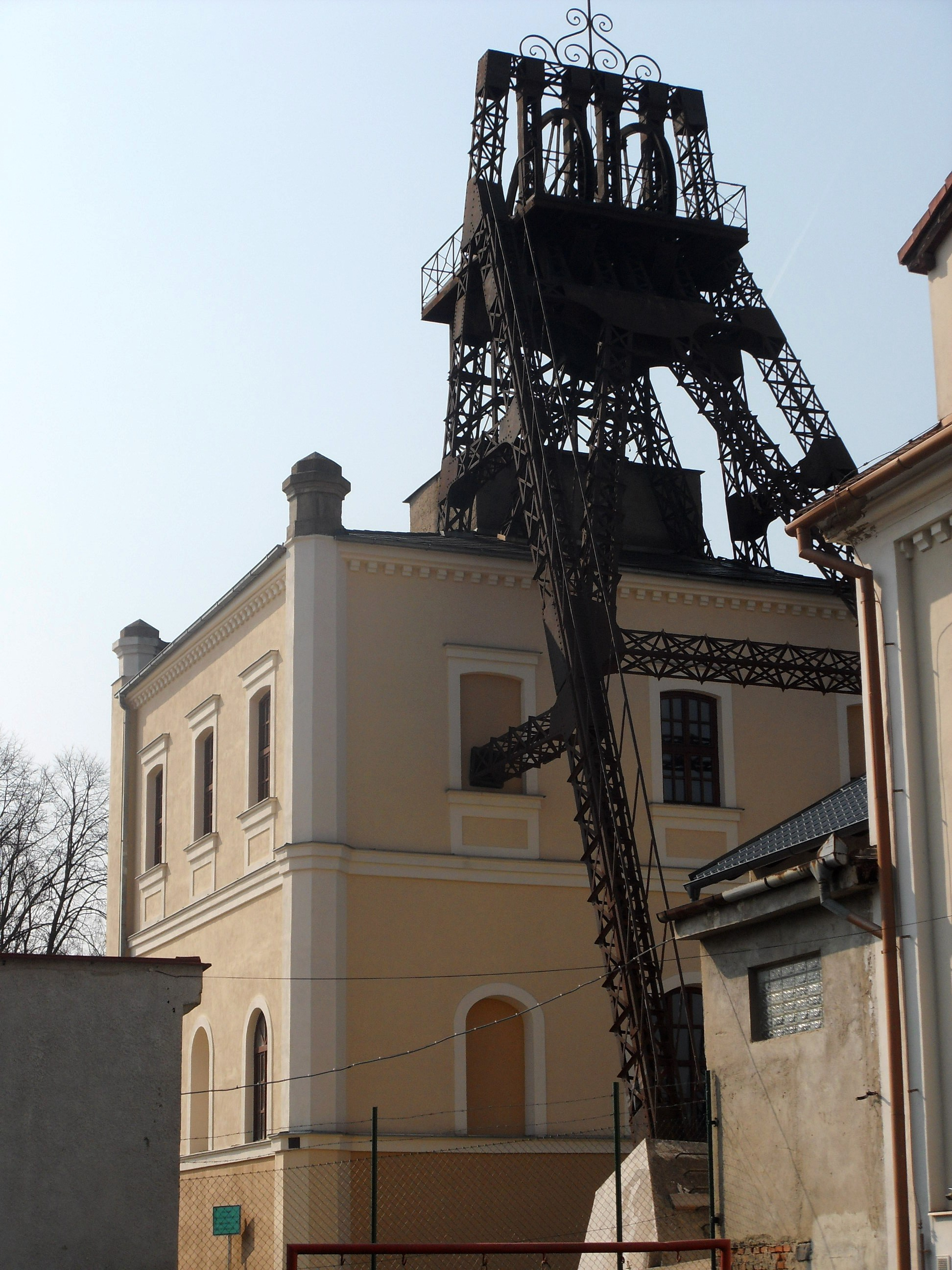 Former Simson coal mine, Zbýšov, Brno-venkov District, Czech Republic